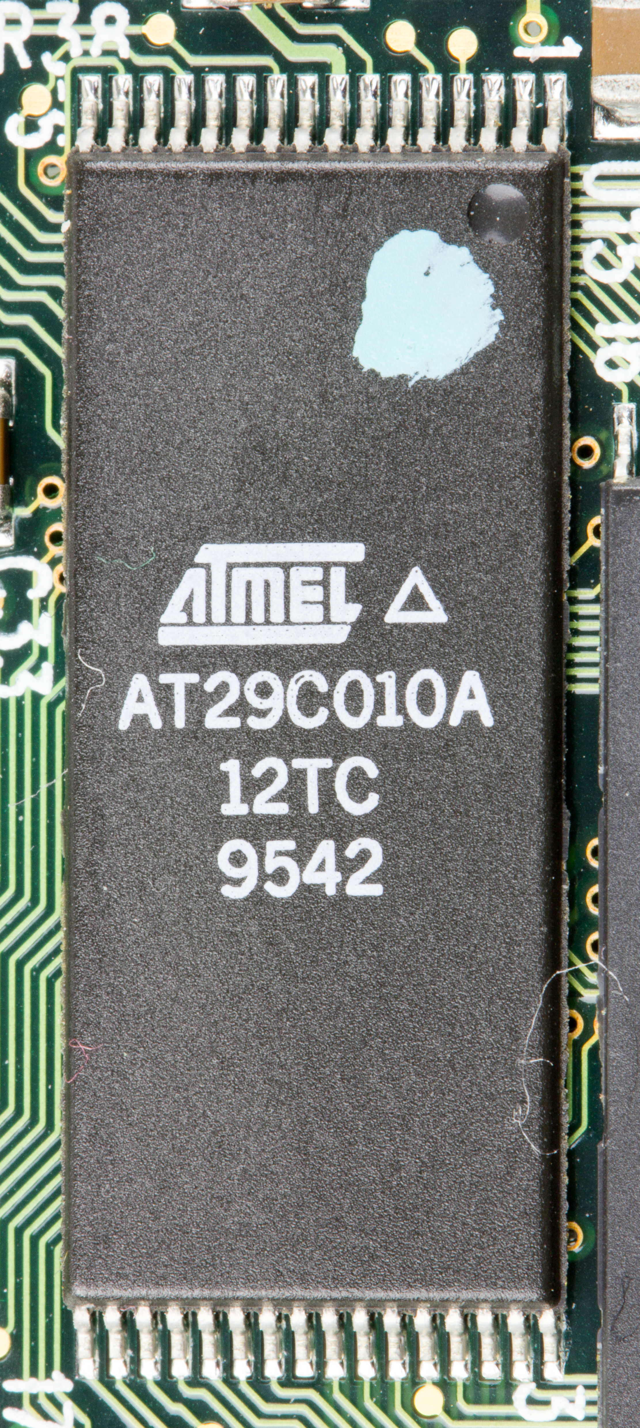 IBM PCMCIA Data/Fax Modem V.34 FRU 42H4326 - Atmel AT29C010A (1 Megabit (128K x 8) 5-volt Only CMOS Flash Memory)